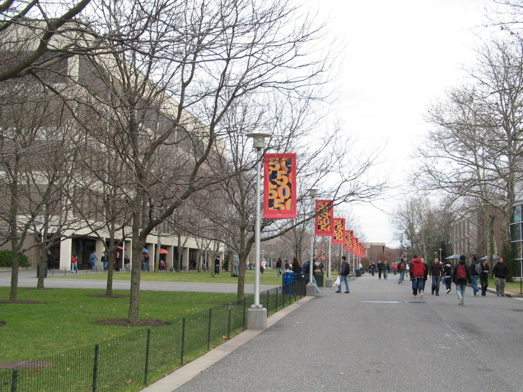 The main alley of the SUNY Stony Brook Campus